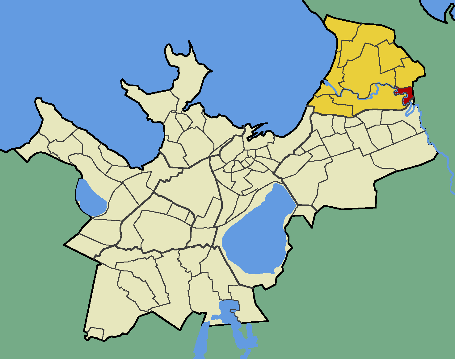 Map of Tallinn (Estonia) with borders of the quarters, Pirita district and Iru quarter emphasised